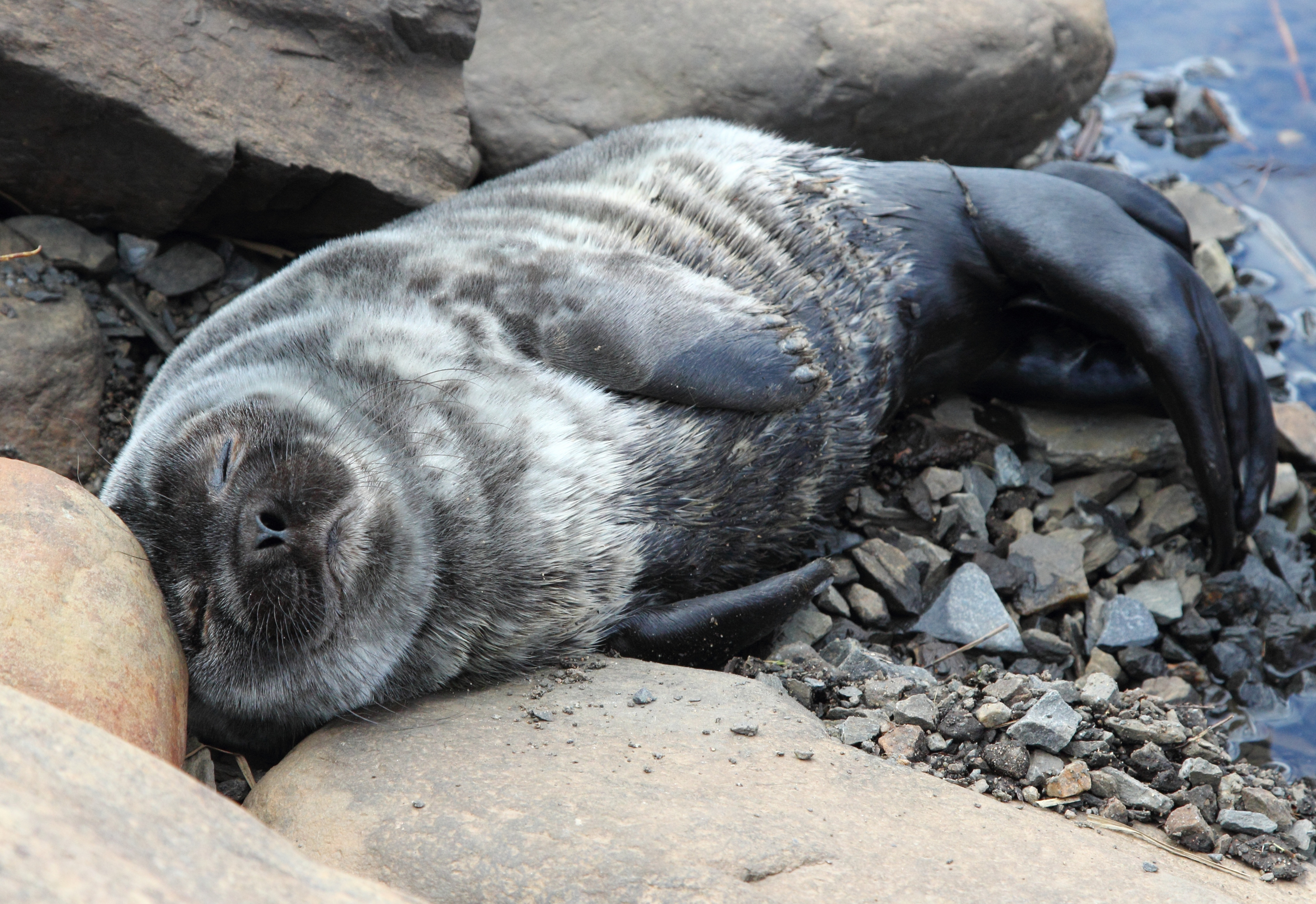 A young Ringed Seal (of the Gulf of Bothnia) (Pusa hispida botnica) in the Taskisenperä marina in Oulu, Finland.